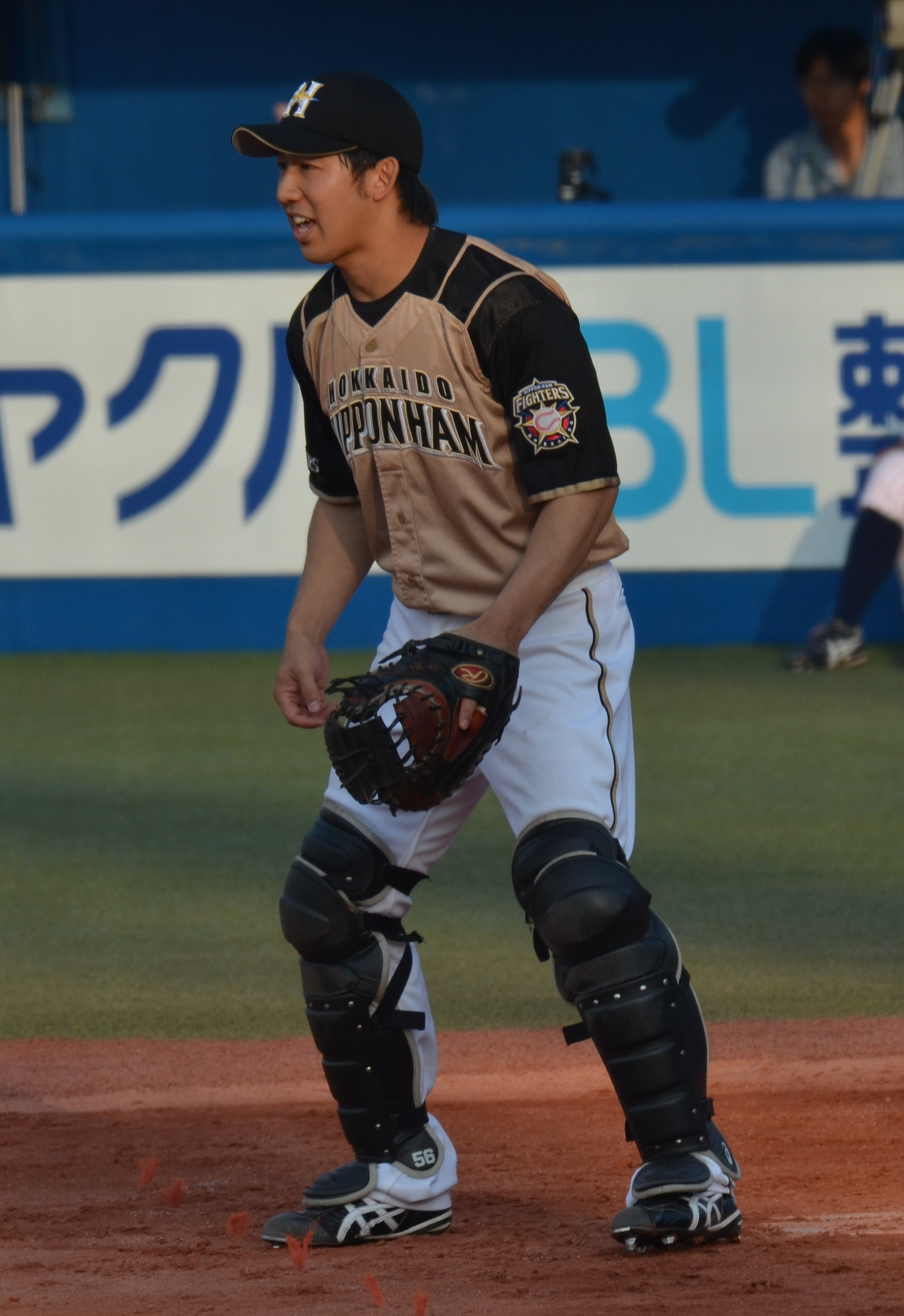 Tomoya Ichikawa, catcher of the Hokkaido Nippon-Ham Fighters, at Meiji Jingu Stadium.